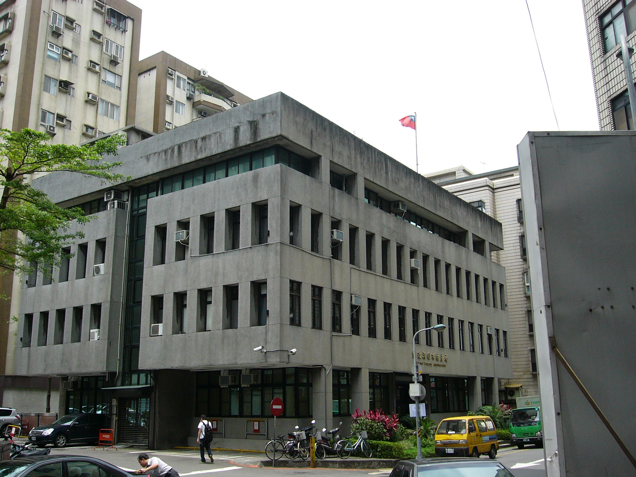 National Property Administration First Office, Ministry of Finance, Republic of China.